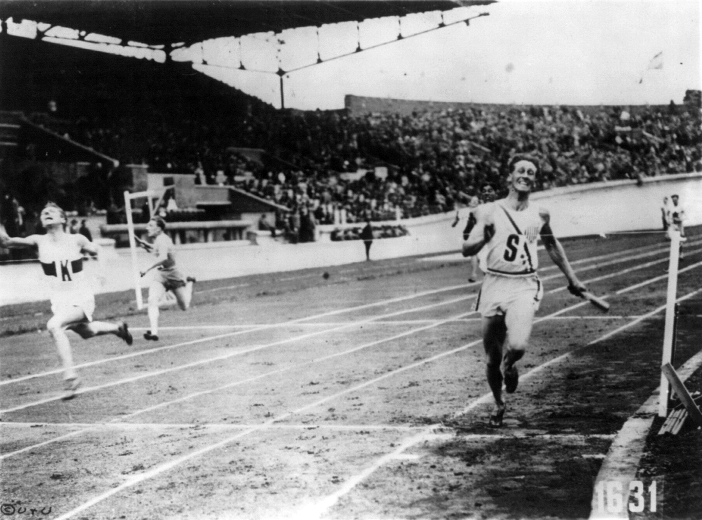 The finish of the 400 meter relay at the 1928 Olympic Games, Amsterdam - won by U.S.